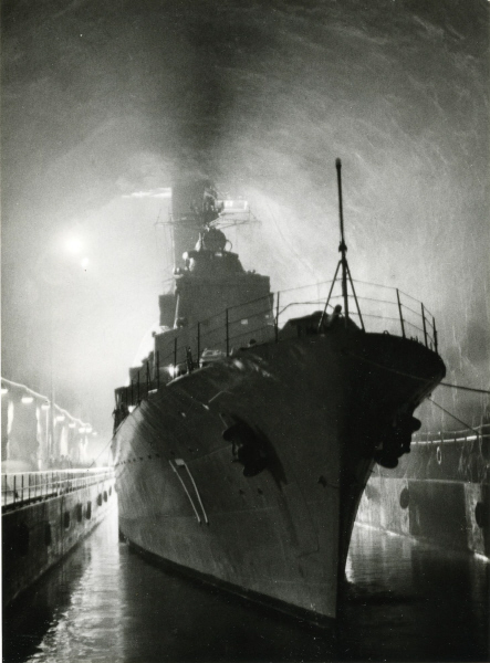 The Swedish destroyer HMS Uppland in an underground dry dock.